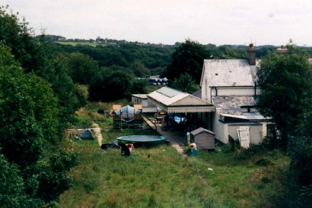 Whitstone and Bridgerule station The penultimate station on the London & South-Western Railway's branch from Halwill Junction to Bude served the villages of Whitstone in Cornwall and Bridgerule in Devon, though not conveniently situated for either. The station itself is in Devon, though just west of the Tamar which forms the natural border of Cornwall, because the boundaries were adjusted to keep the whole parish of Bridgerule in one county. The line closed in 1966 and the station site is now used as industrial premises.